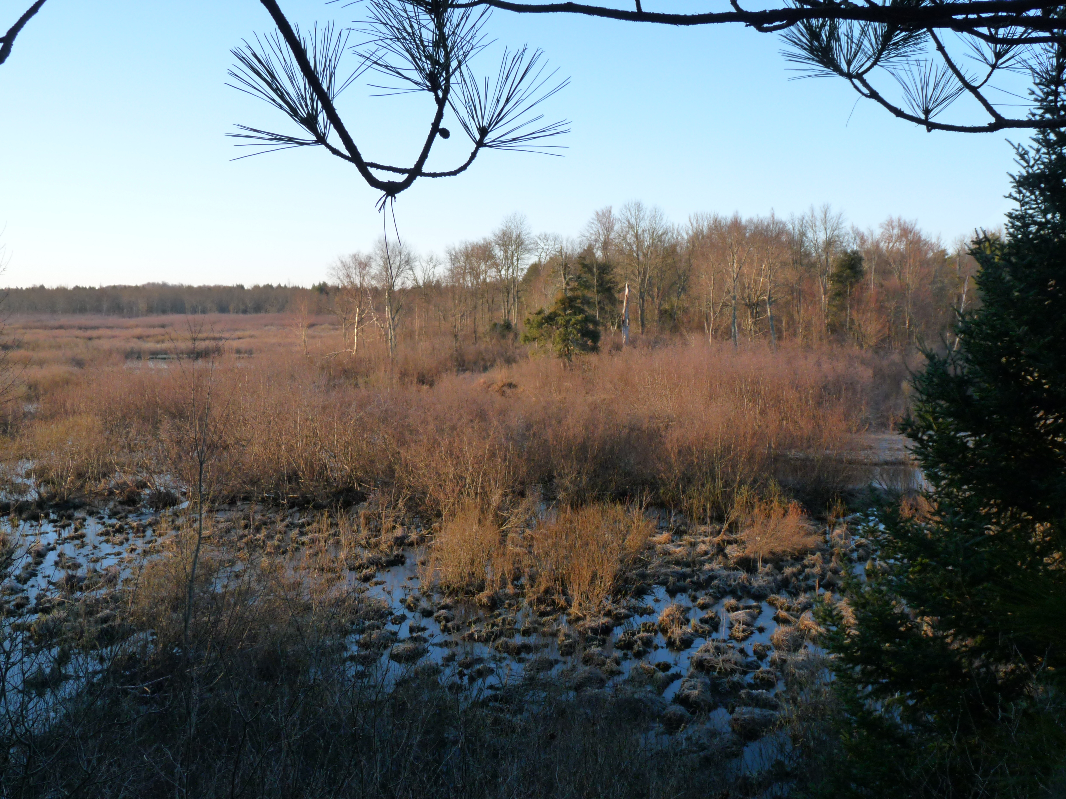 Wetlands near Big Indian Farms in Taylor County, Wisconsin.